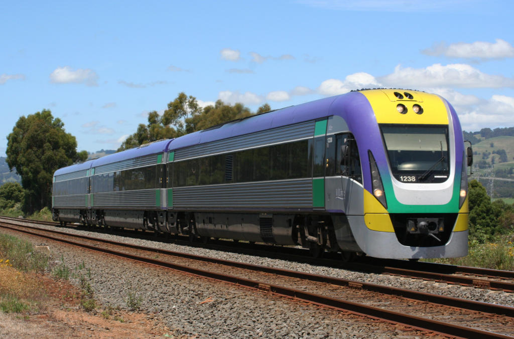 Three car VLocity unit VL38 on the up outside Yarragon, Victoria